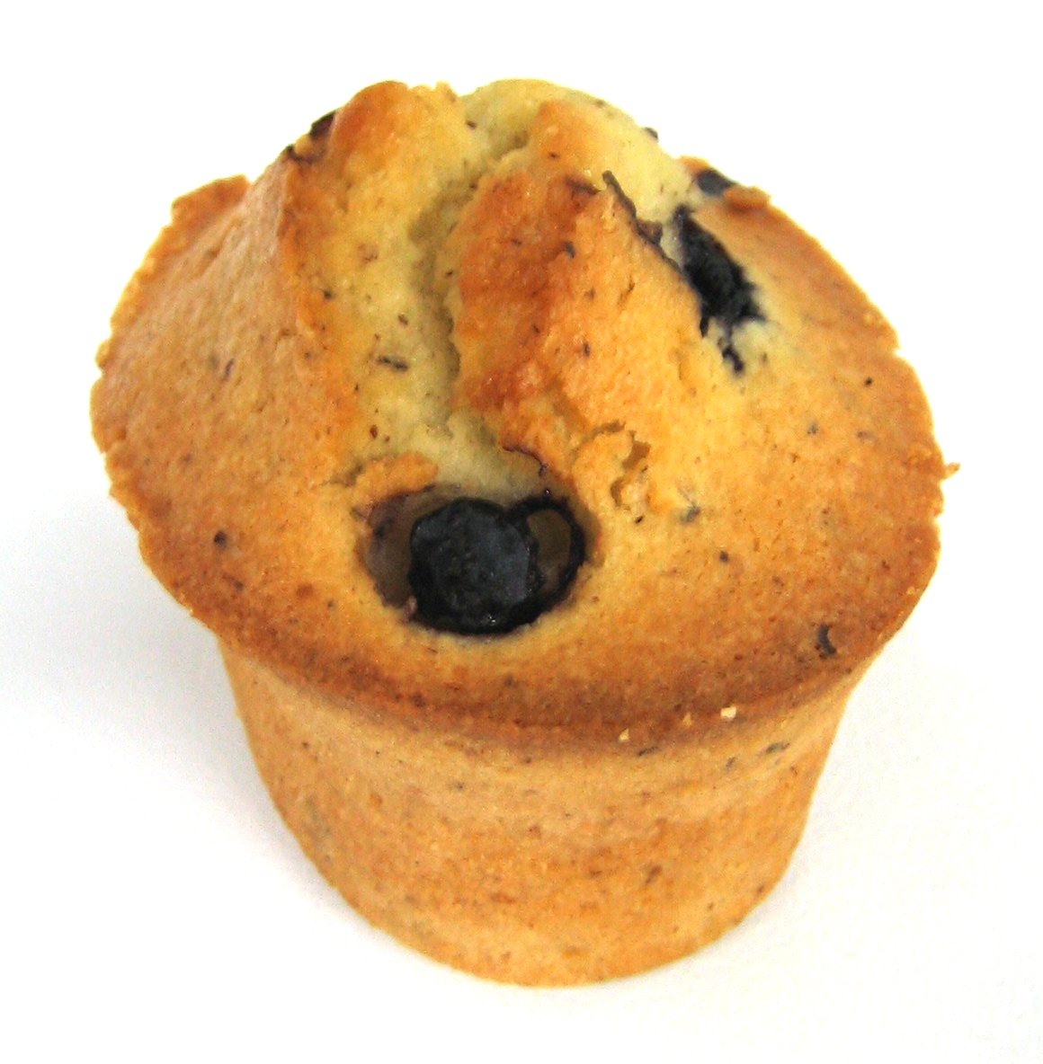 Digitally edited to remove background line and to brighten the image.